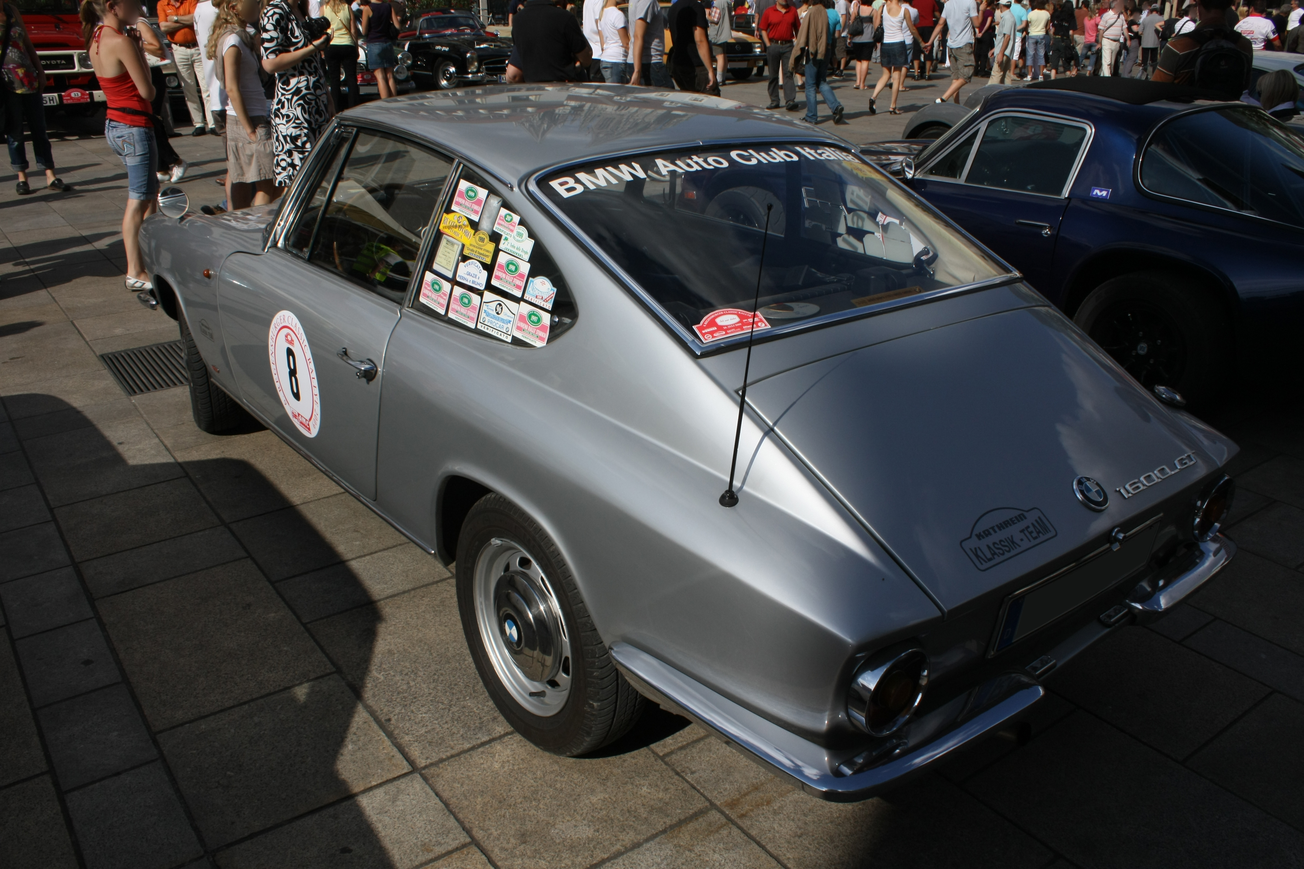 BMW 1600 GT